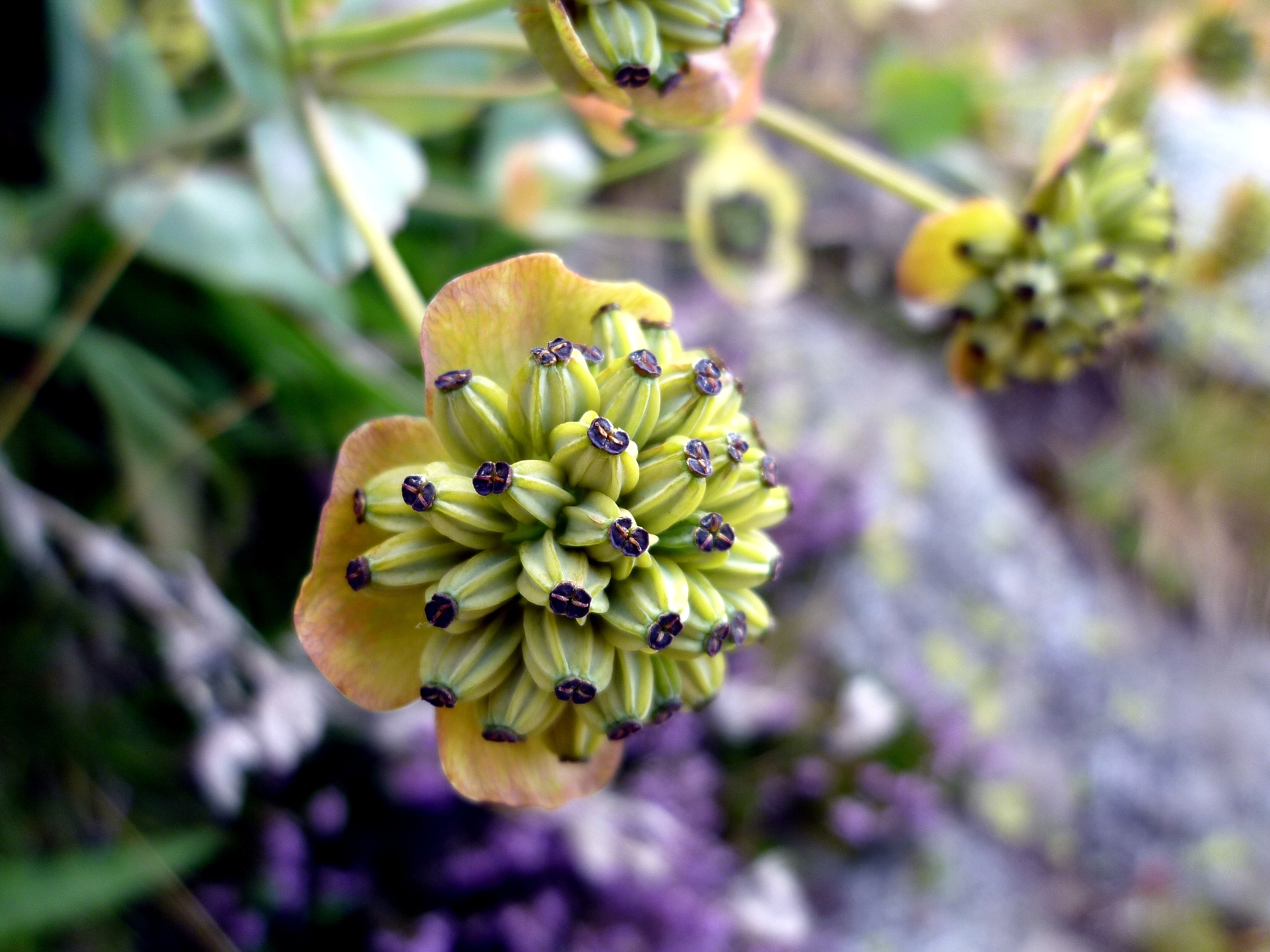 Bupleurum angulosum. Near the Estany Gento (Pallars Jussà - Catalunya. To 2.150 m altitude